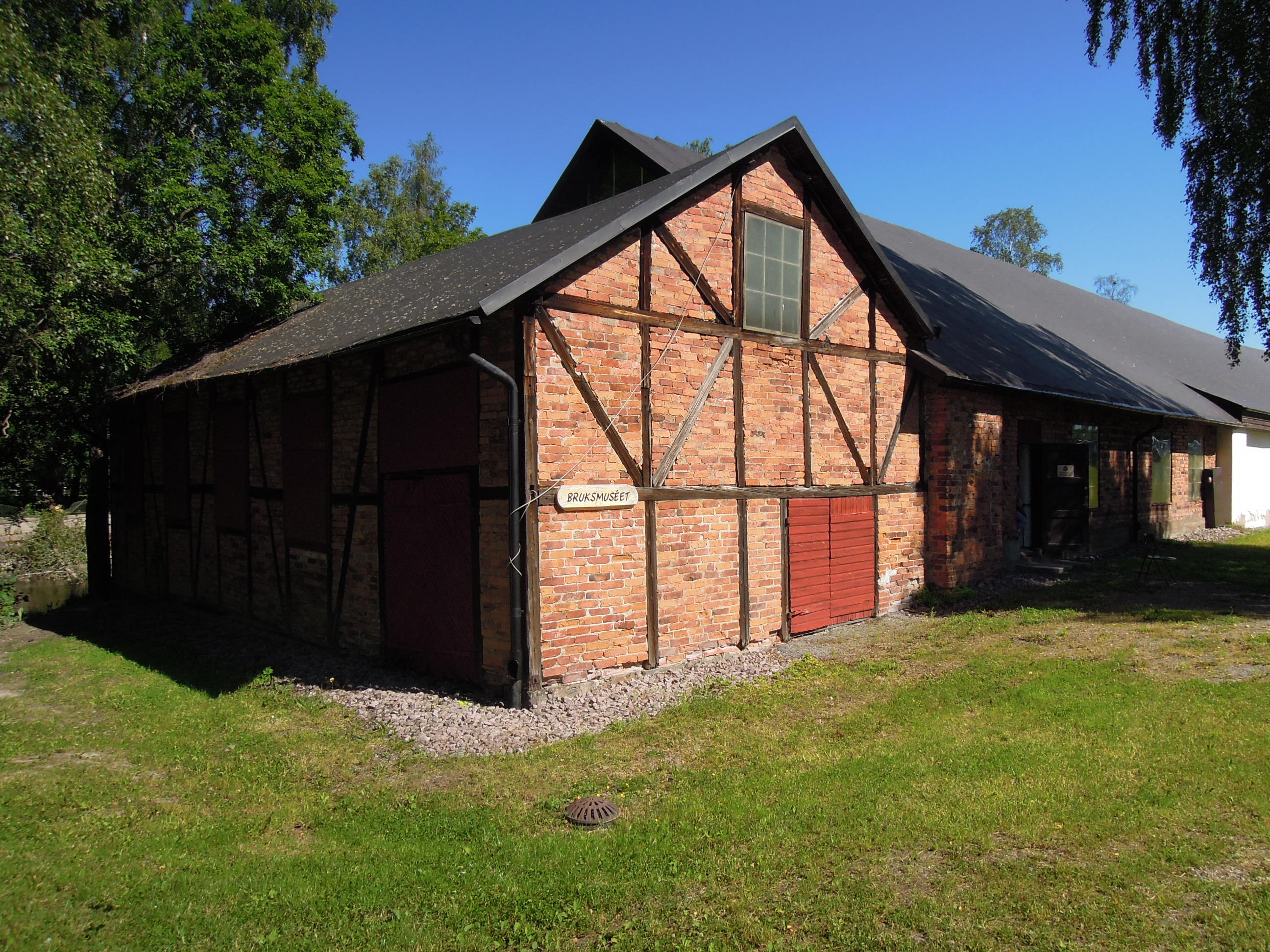 Ironwork museum in Surahammar, Sweden